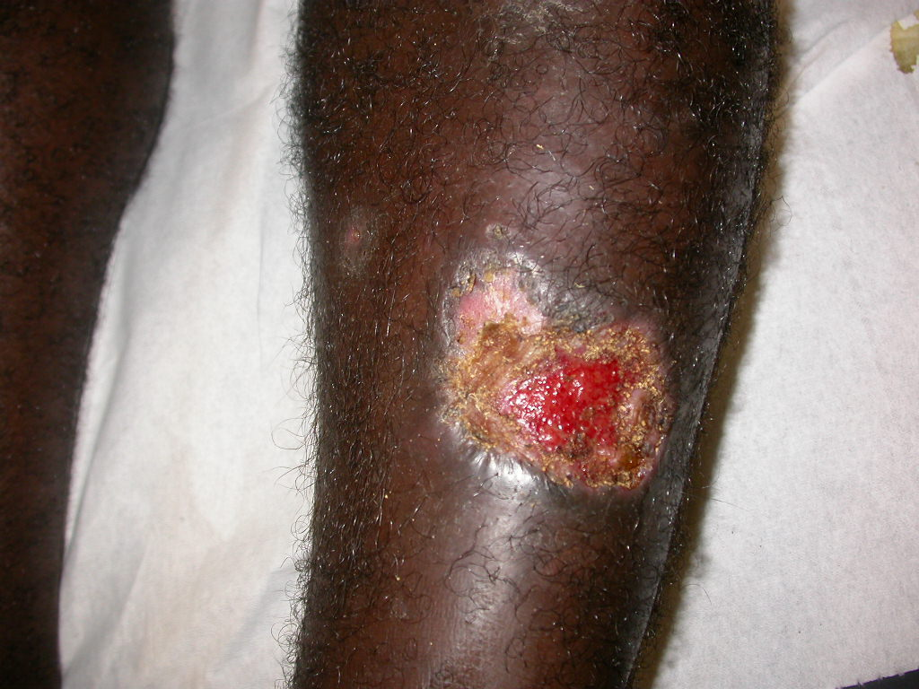 Cutaneous leishmaniasis_French_Guyane